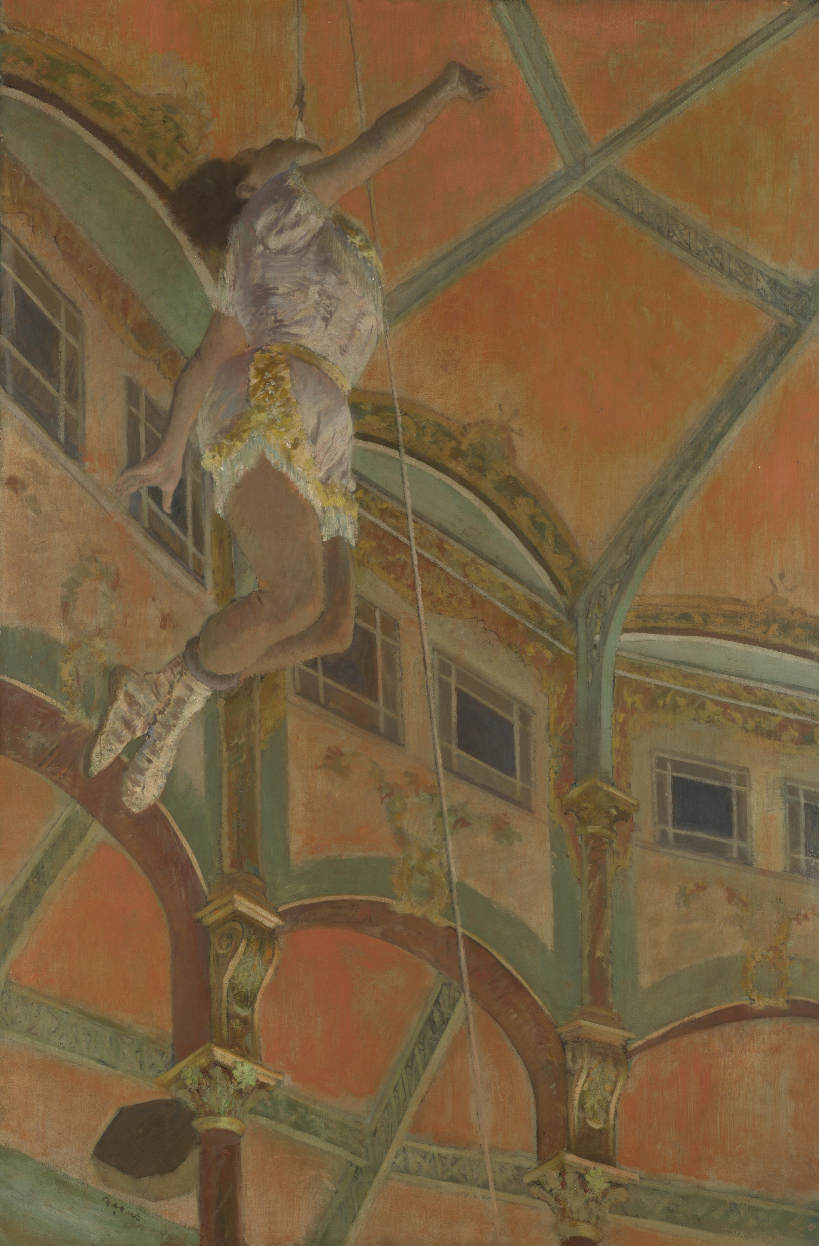 The acrobat Miss La La caused a sensation when she performed at the Cirque Fernando in Paris. Here she is shown suspended from the rafters of the circus dome by a rope clenched between her teeth. Degas sought out such striking modern subjects, concentrating on figures in arresting poses. In January 1879 he make a series of drawings at the Cirque Fernando including a pastel study of Miss La La (London, Tate Gallery), which culminated in this painting. We view the spectacle as the audience would have done, gazing up at the daring feat taking place above.